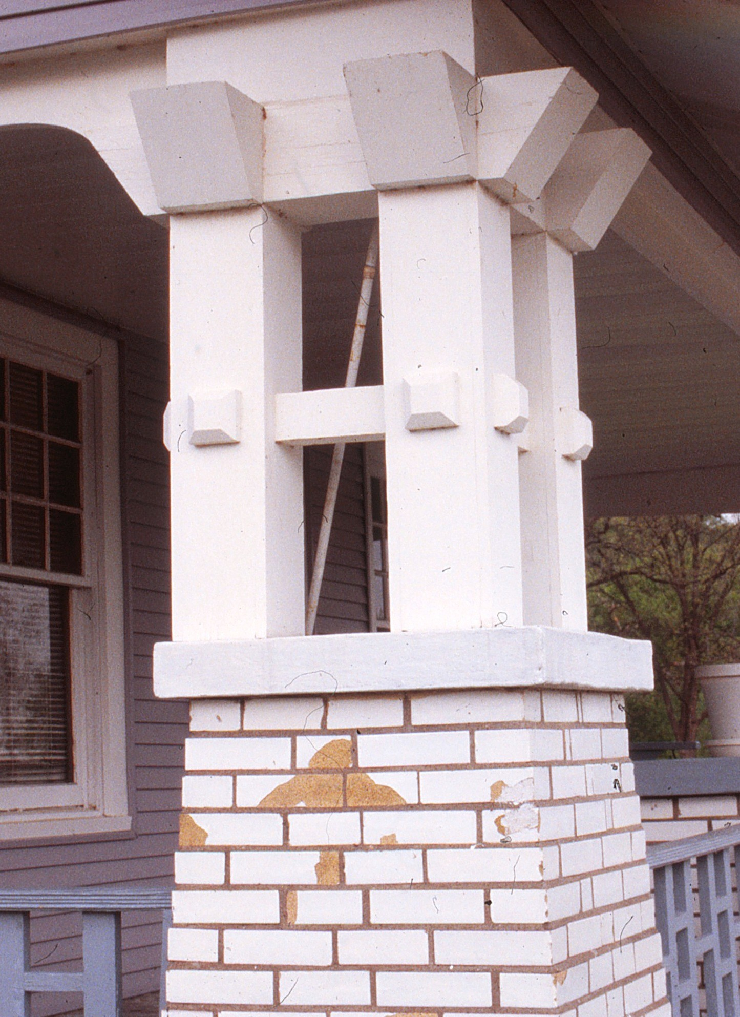 A photo showing the column detail on a Sears Vallonia kit house